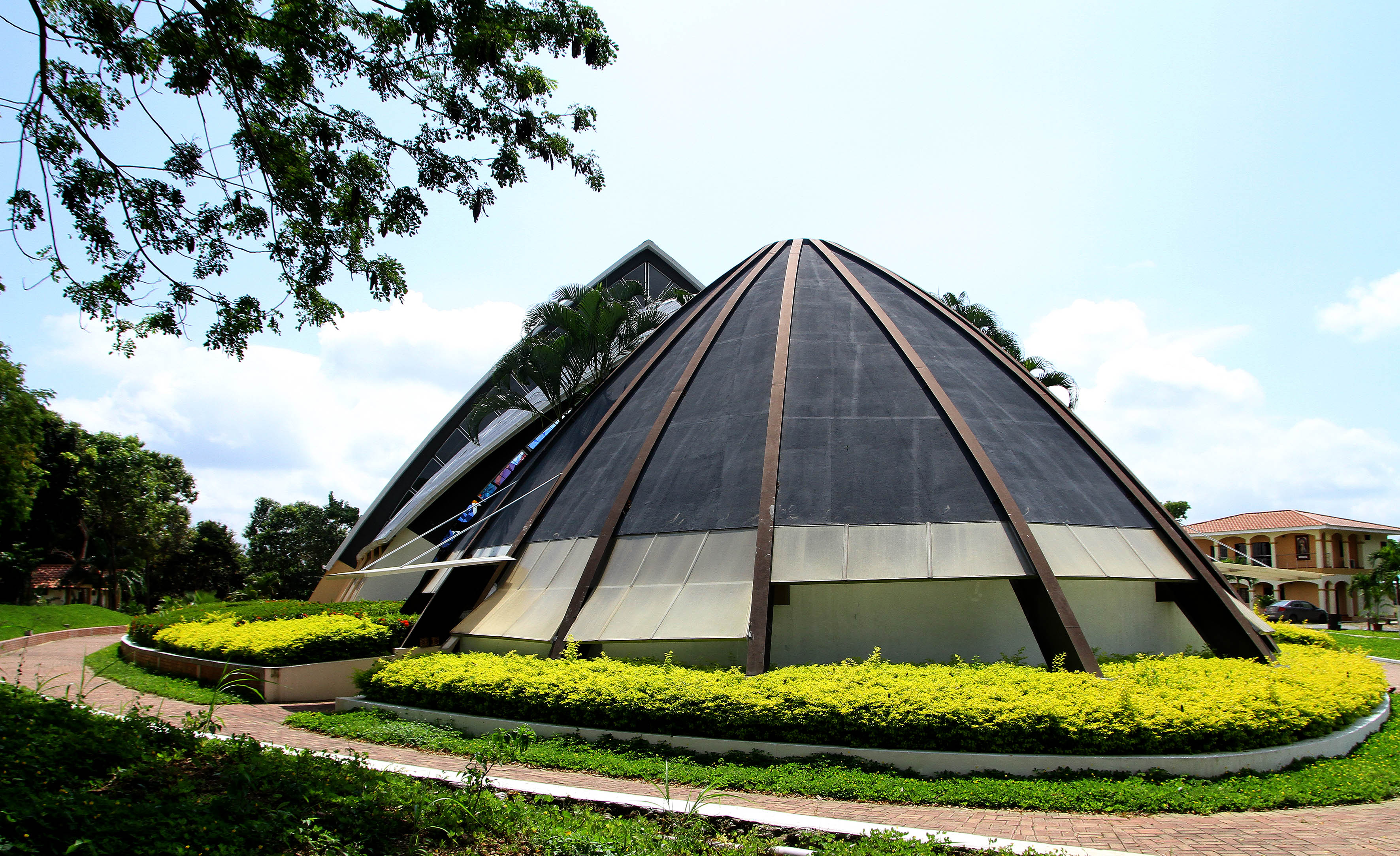 Guayaquil, 29 de may (Andes).-En los predios cercanos al santuario de la Divina Misericordia (foto) el Papa Francisco oficiará una misa campal para 11 mil fieles católicosFoto:César Muñoz/Andes